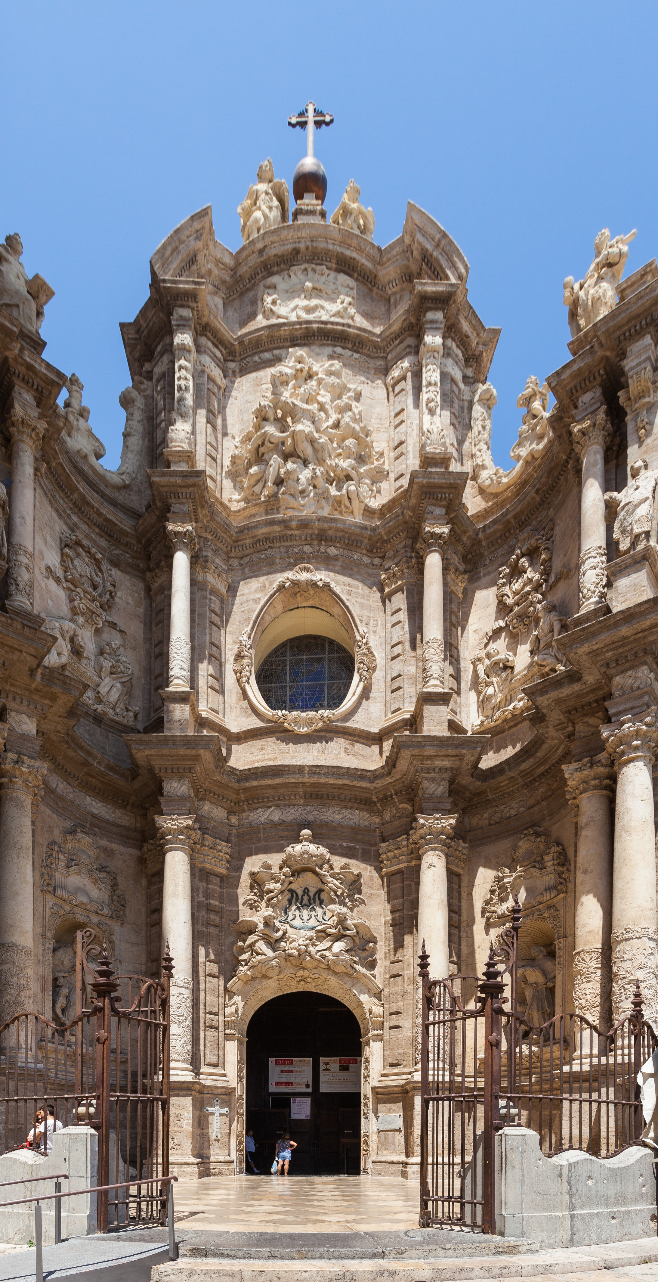 Irons' Gate, Valencia Cathedral, Valencia, Spain